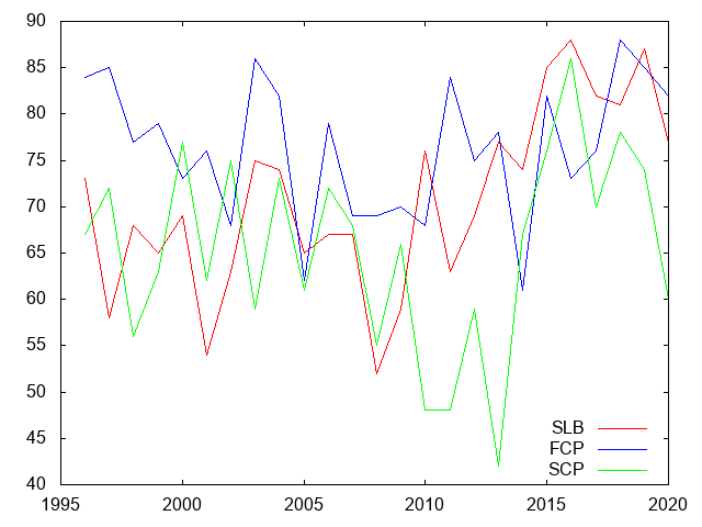 Portuguese soccer championship, points from 1996 to 2020